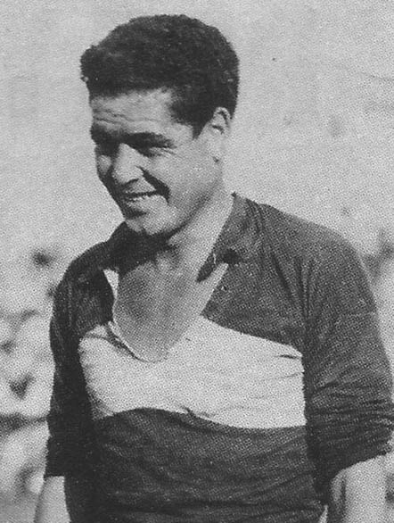 Photo of Roberto Cherro during his run in Boca Juniors of Argentina.